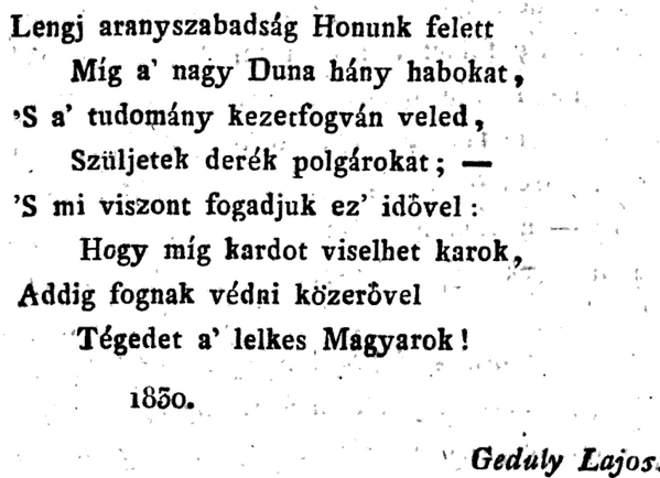 Poem of Geduly Lajos